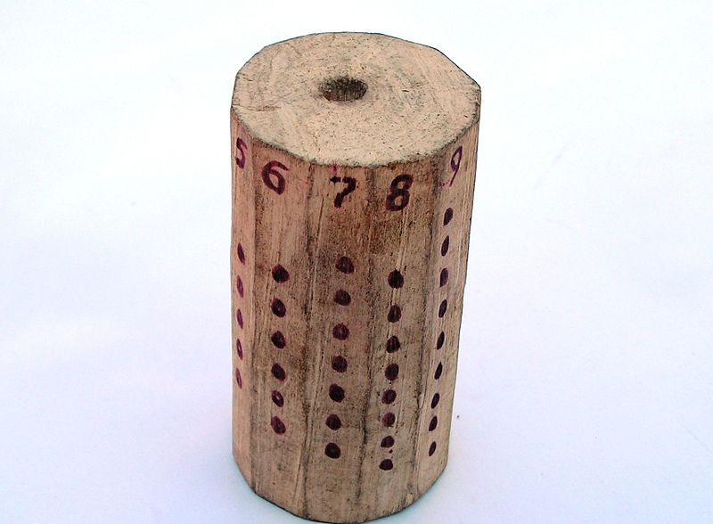 A piece of equipment for a Khakas traditional board game.